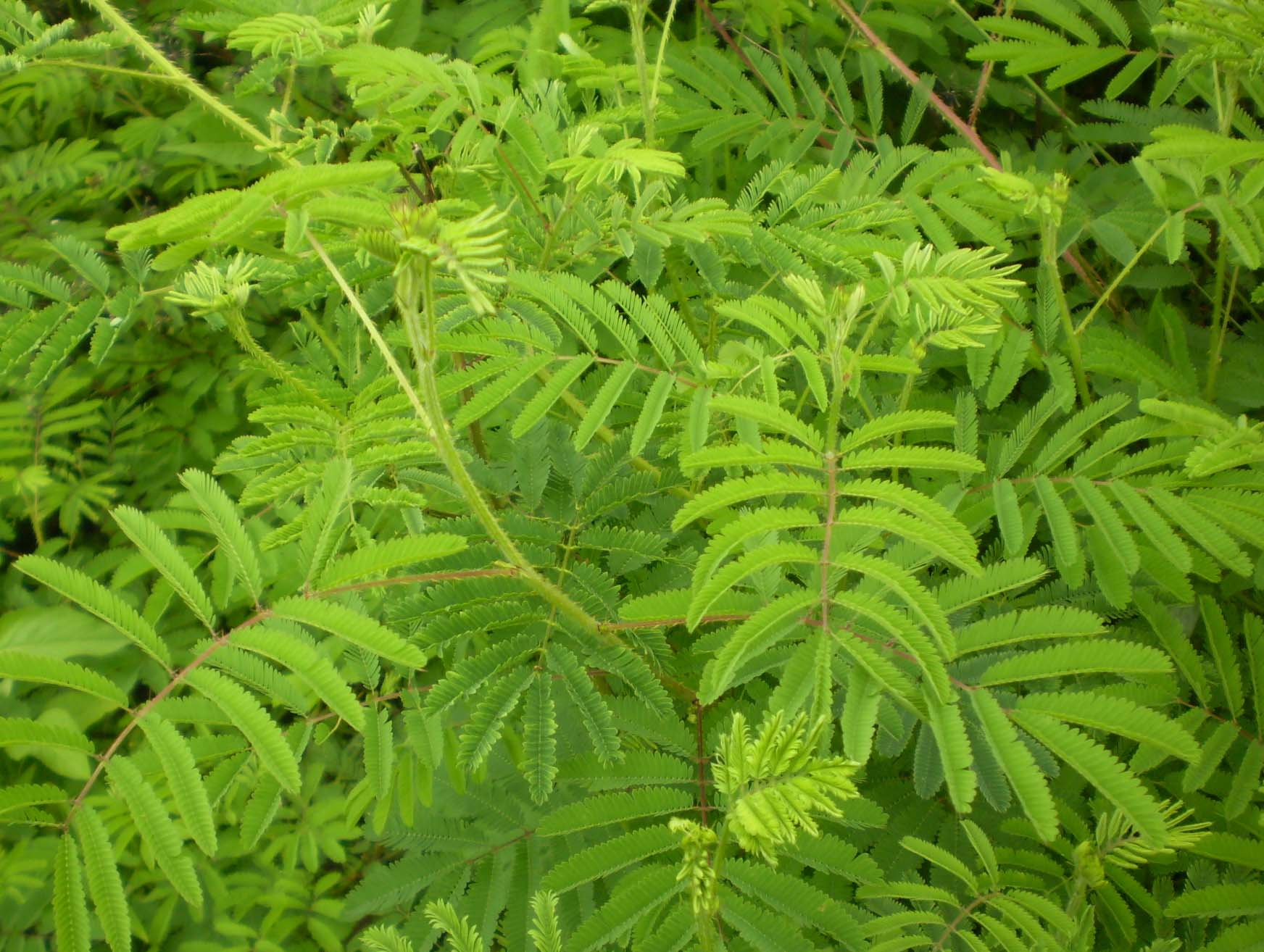 Tree thorns bard